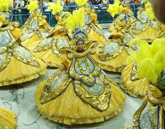 "baianas" from Imperatriz Leopoldinense samba-school - Rio de Janeiro, 2008 carnival